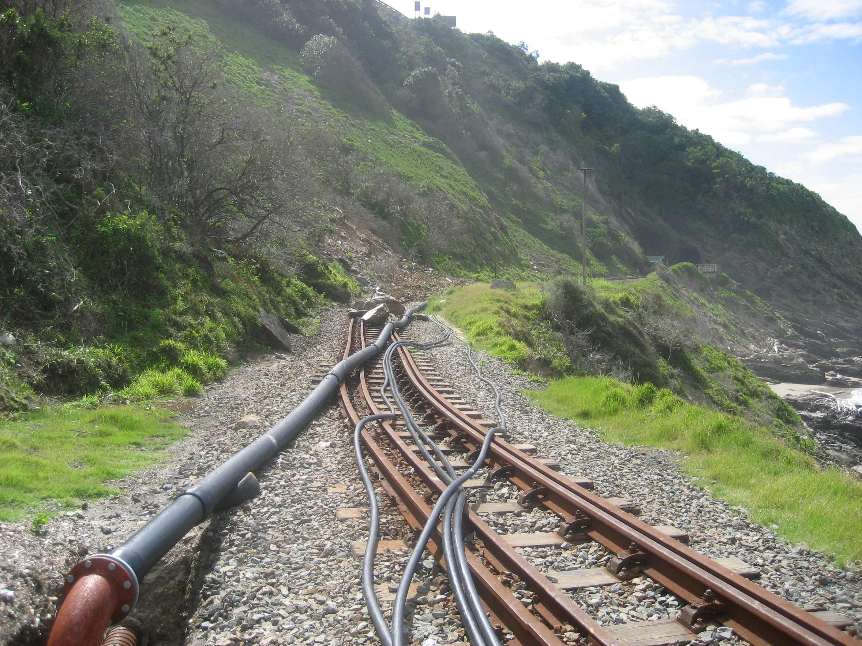 The damages on the Kaaimans River Bridge at the George-Knysna-Line